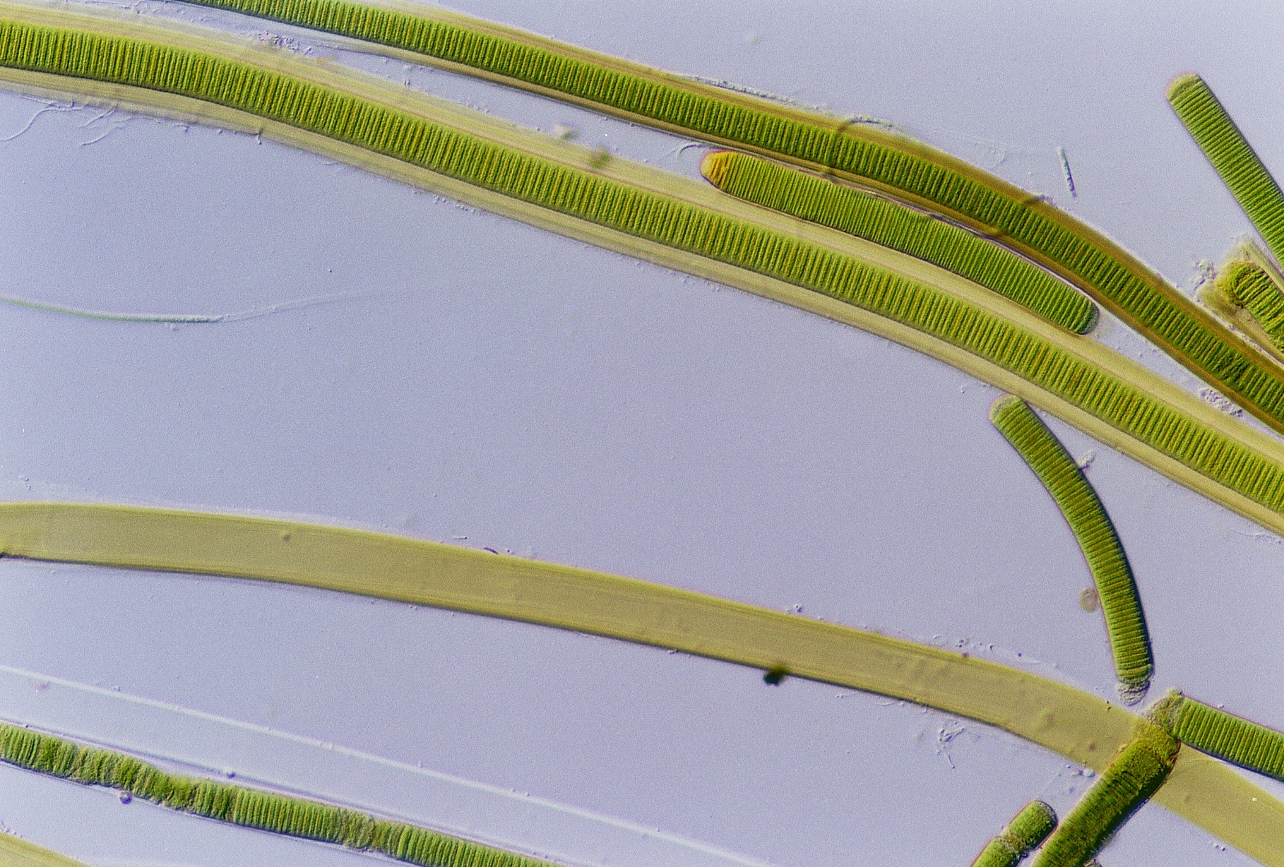 Filamentous cyanobacterium of a genus Lyngbya, as collected in Baja California, Mexico